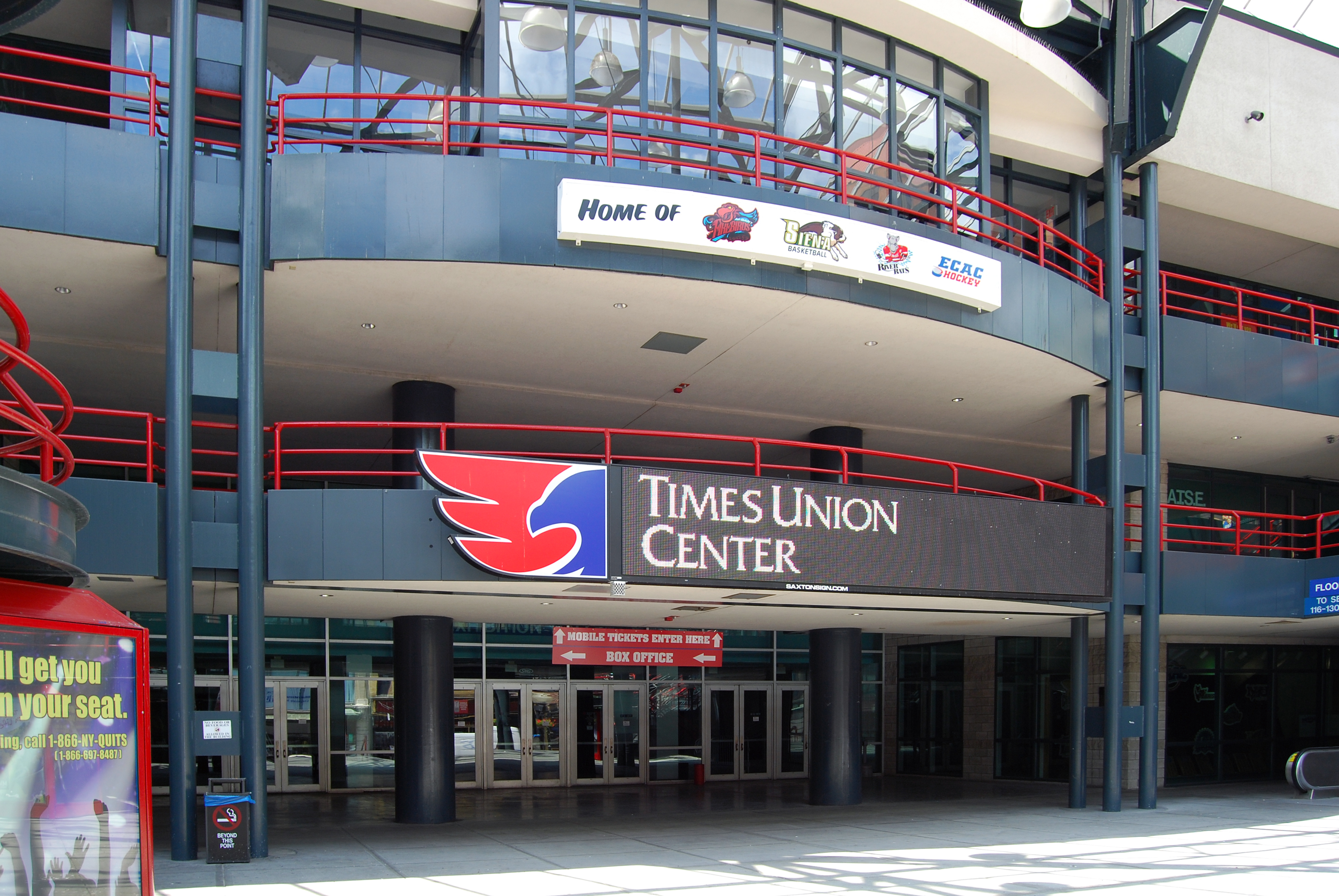 Entrance and atrium at the Times Union Center in Albany, New York, United States